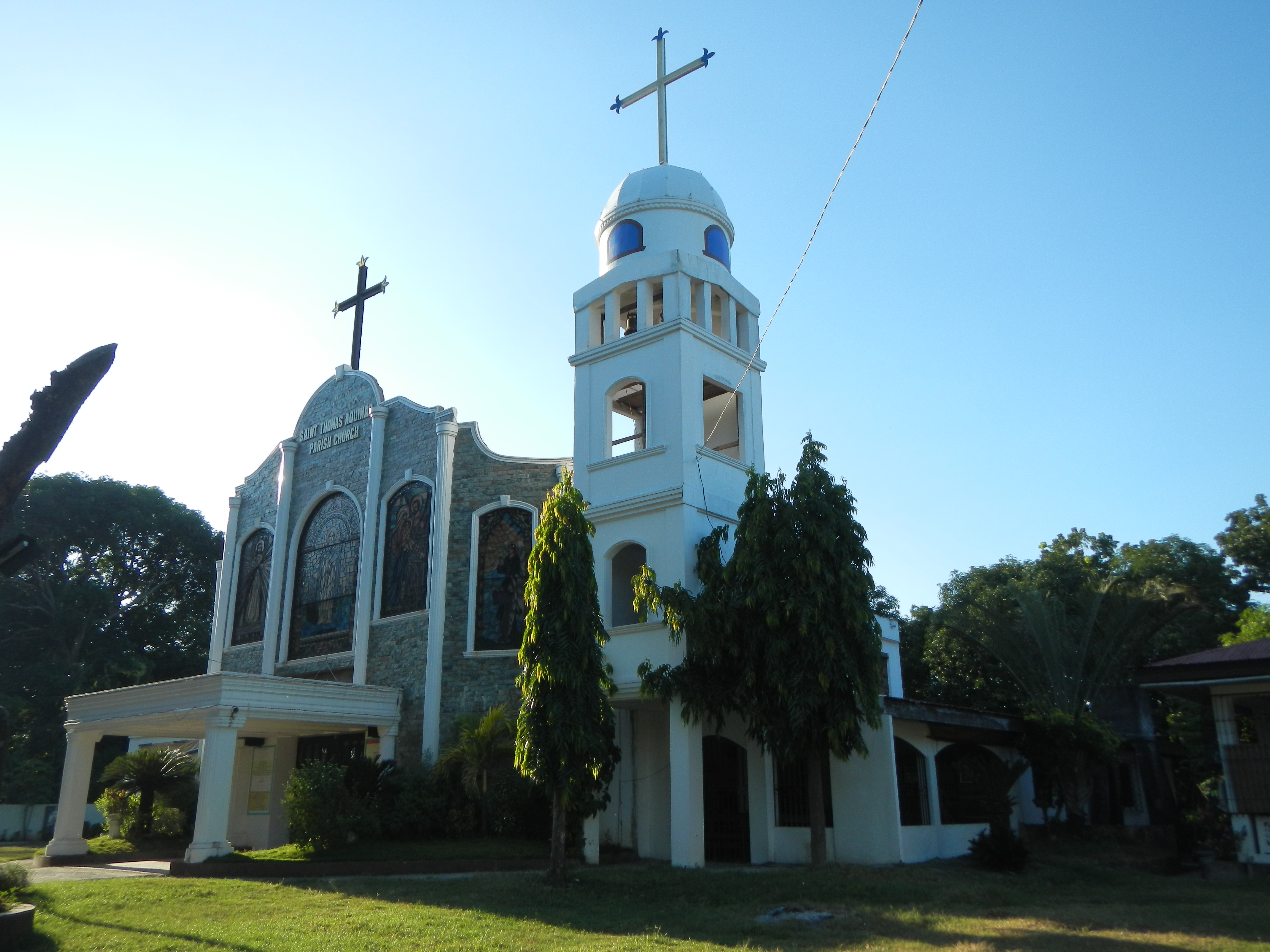 St. Thomas Aquinas Parish (F-1973) Vicariate of Sacred Heart Vicar Forane: Father Hurley John S. Solfelix, 2426 Pangasinan, Philippines Phone: +63 75 578-5377 Feast Day: January 28 Parish Priest: Father Alejandro T. De Guzman Vicariate of Sto. Tomas de Aquino[1]Roman Catholic Archdiocese of Lingayen-Dagupan Santo Tomas, Pangasinan[2]